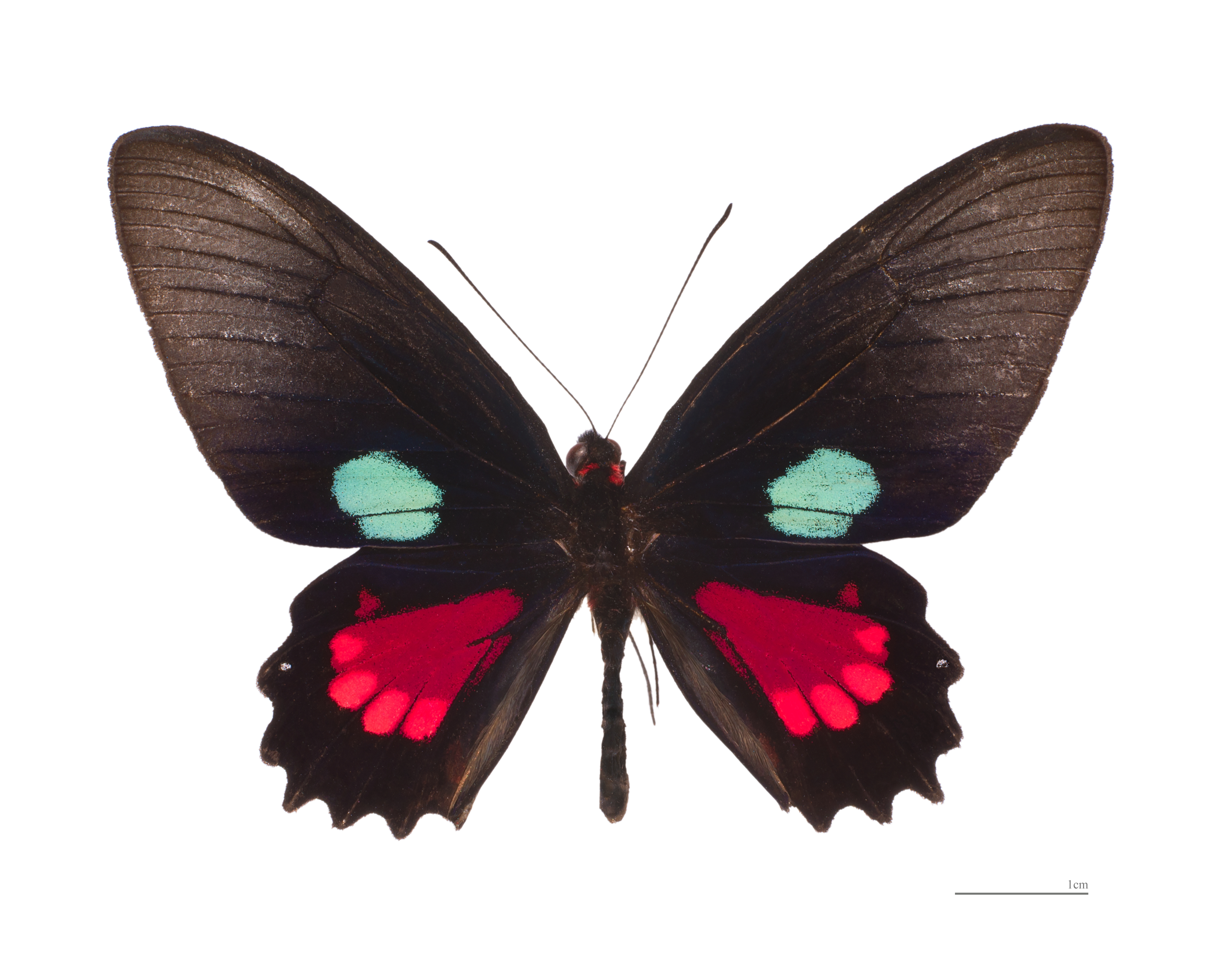 ♀ - Dorsal side Locality : Cacao, Crique Baguot, French Guiana.